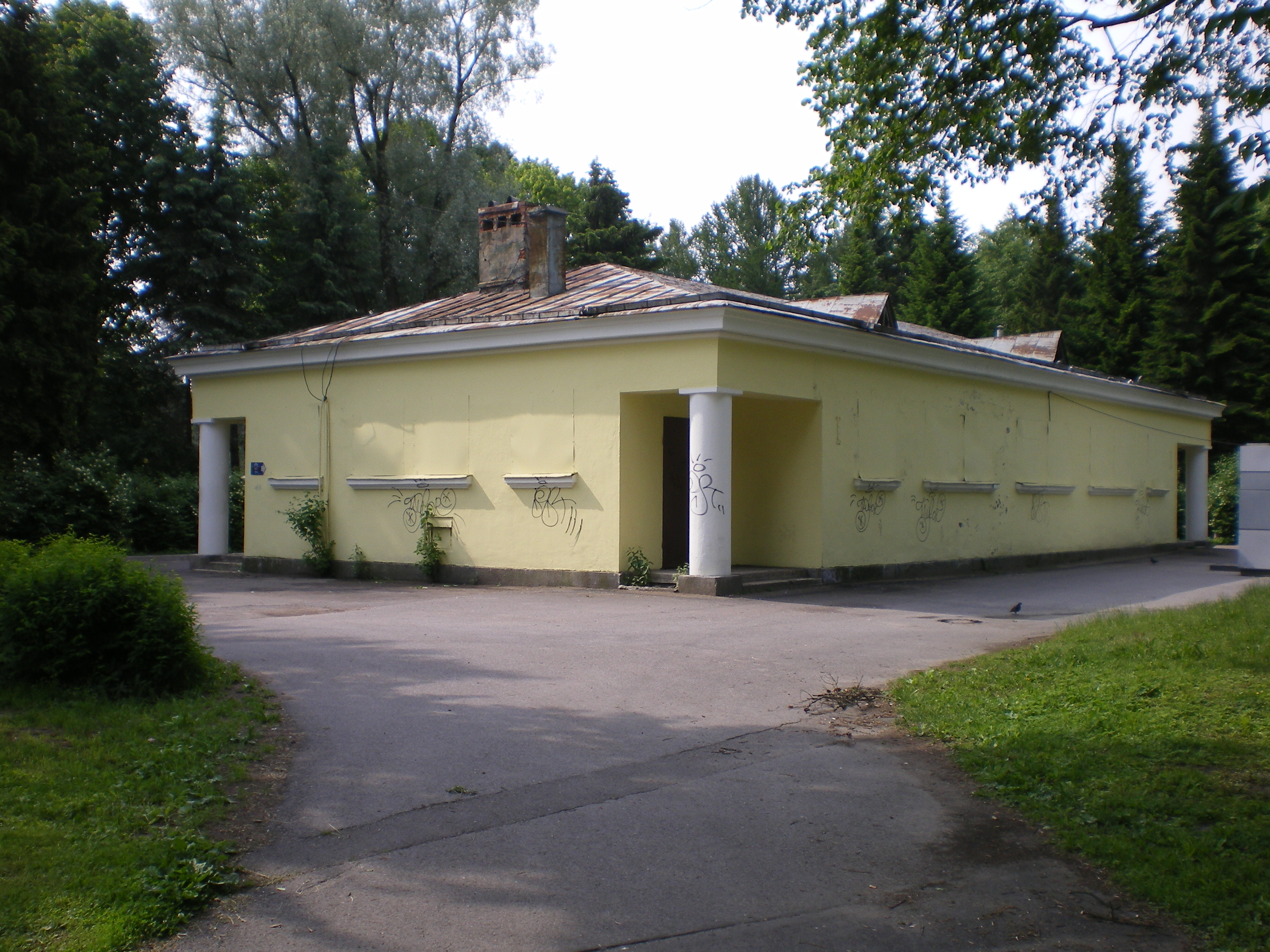 Former electric substation. Adress: Krestovsky pr., 21. View from the north